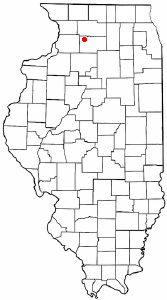 Category:Illinois city locator maps